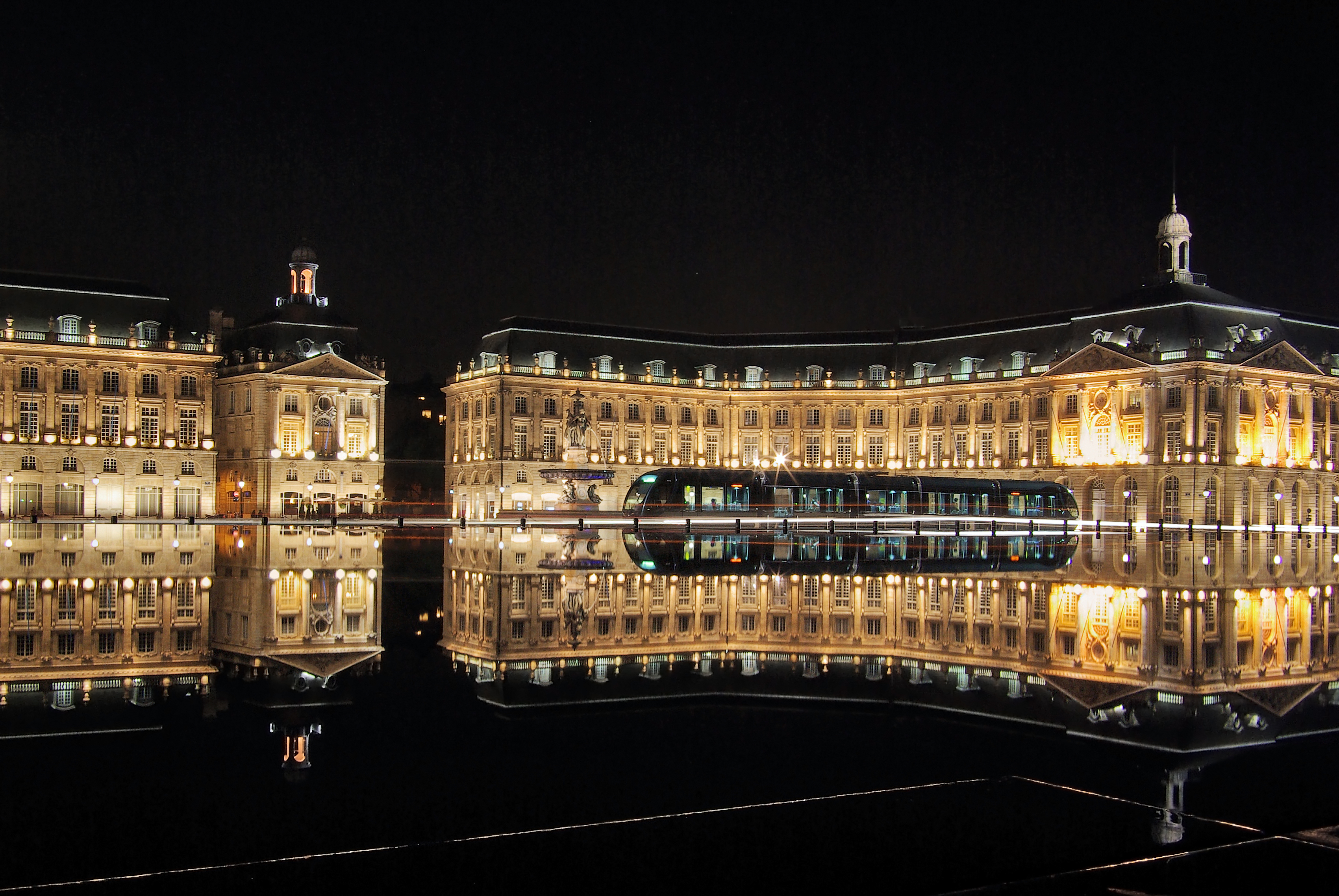 Bordeaux, place de la bourse with tram. In front: miroir d´eau